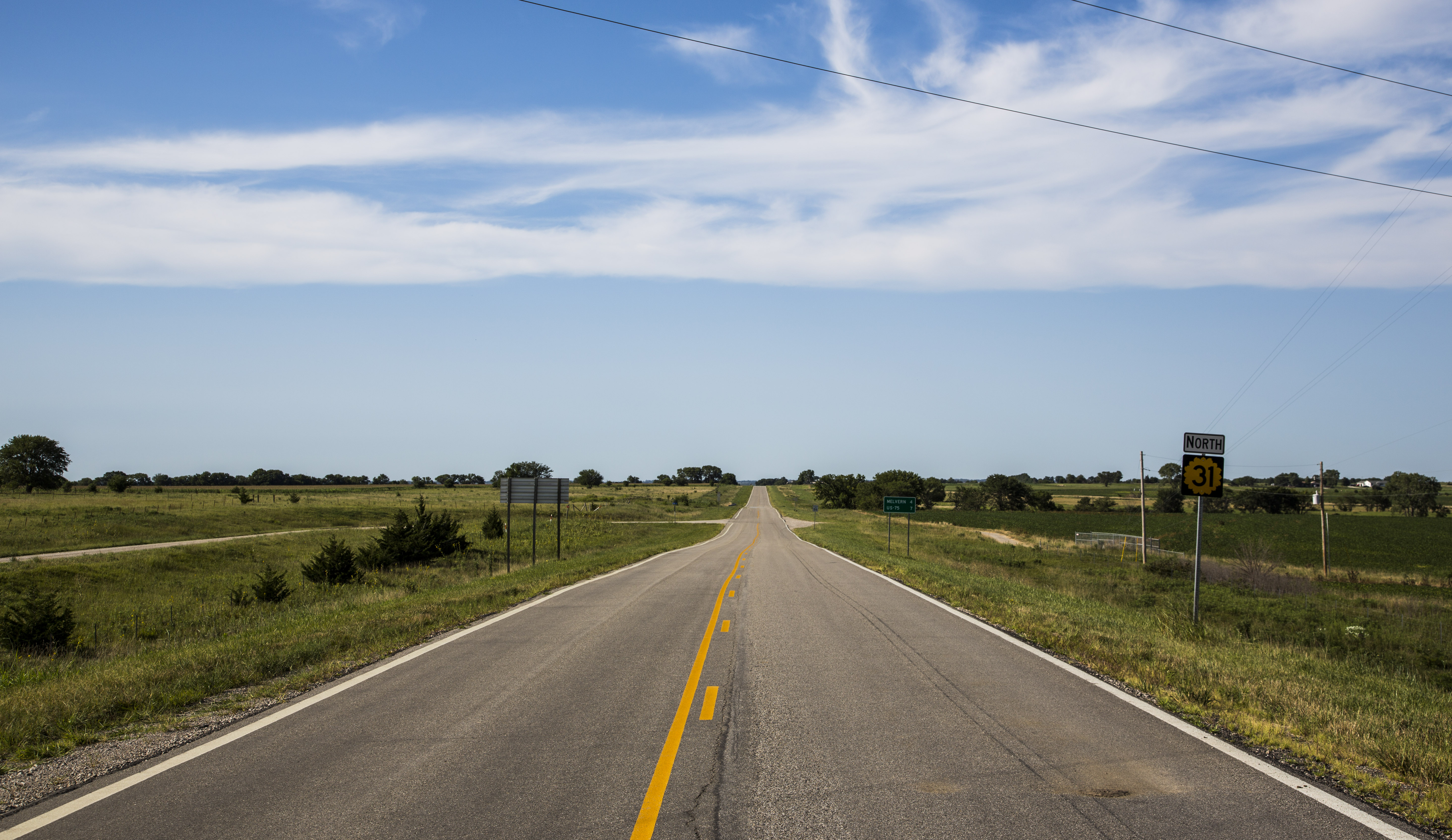 K-31 south of Melvern, KS. Destination sign reads; "Melvern - 4, US-75 - 7"